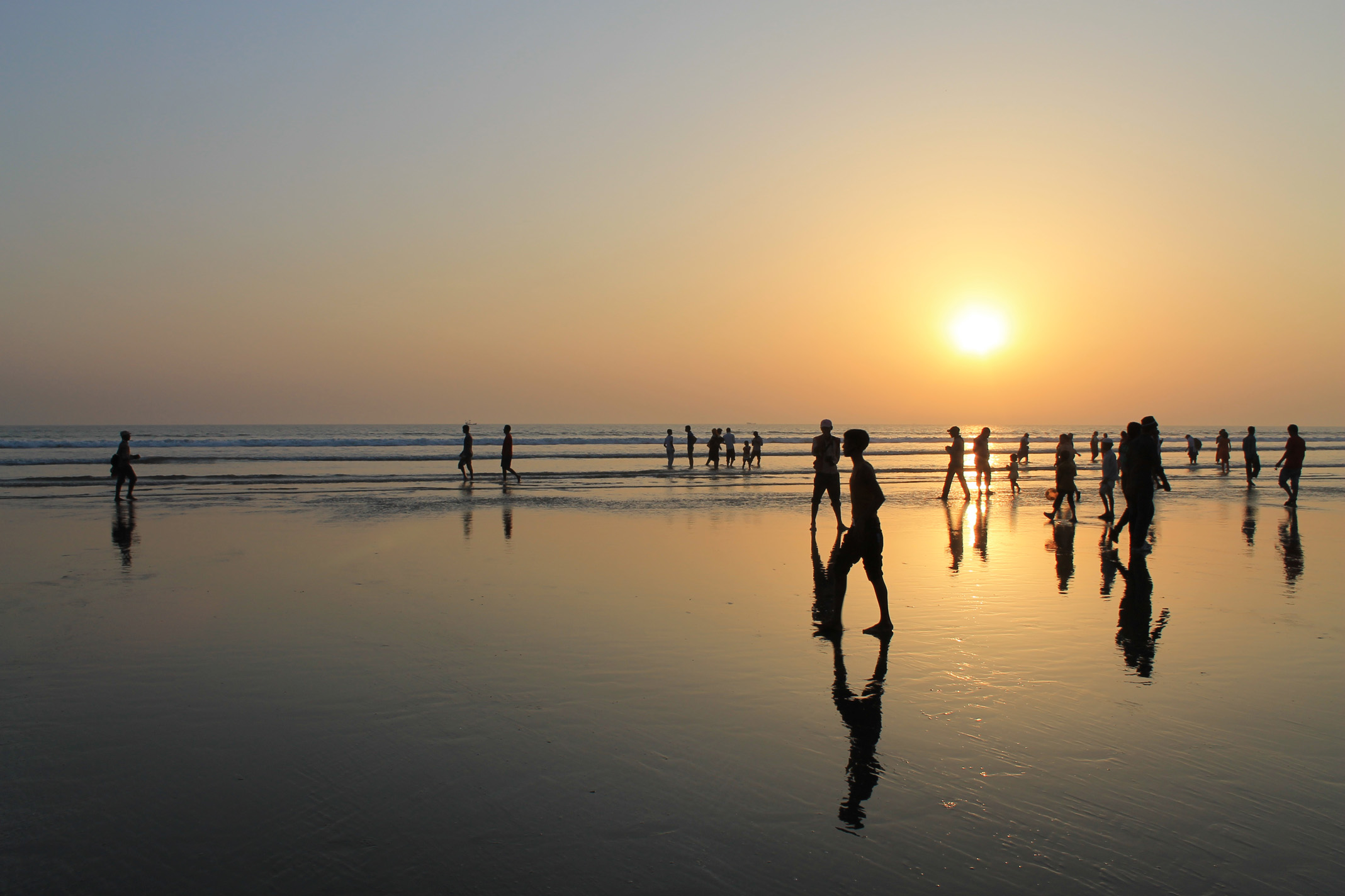 Cox's Bazar sea beach at twilight.